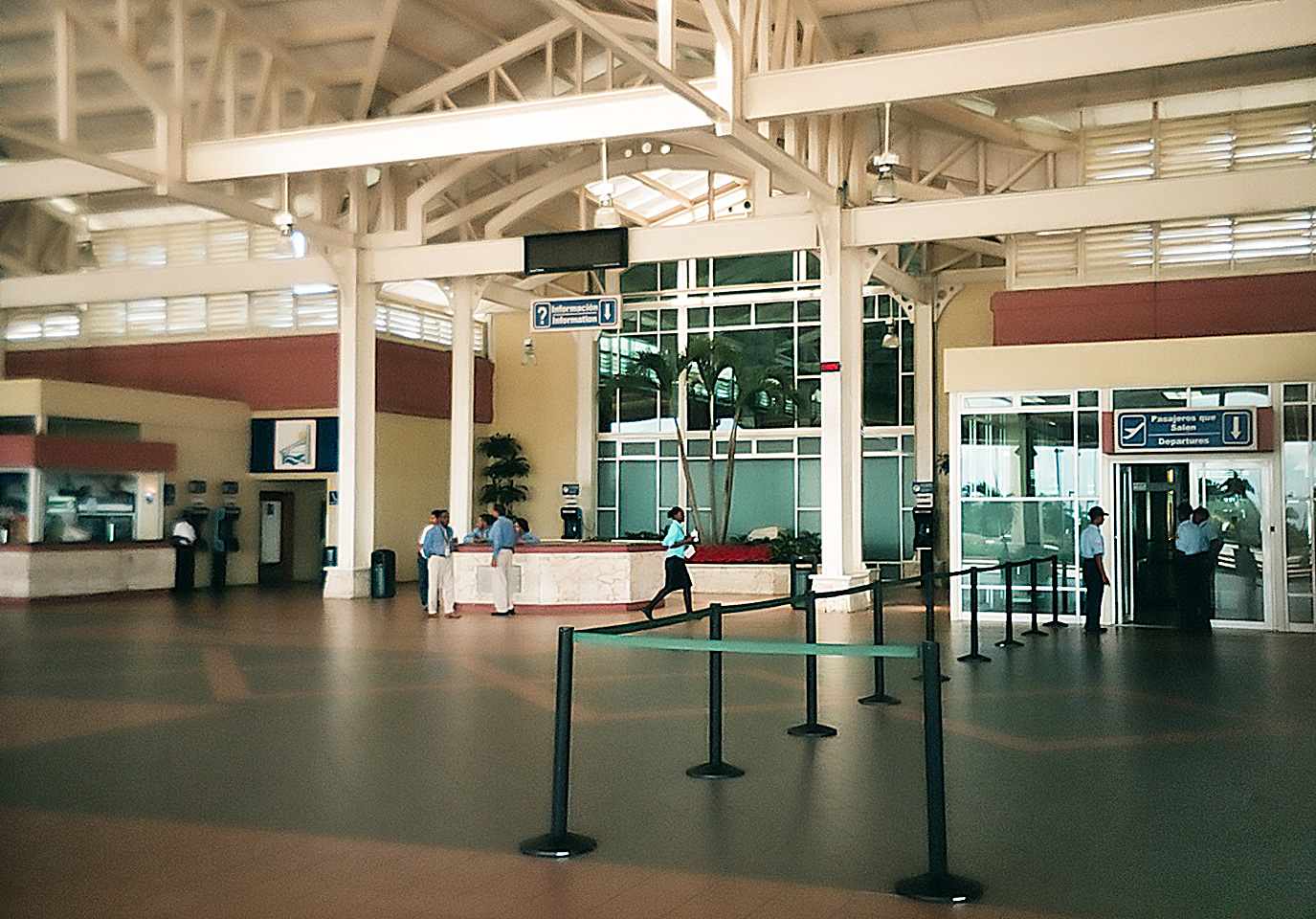 La Romana Airport, La Romana, Dominican Republic